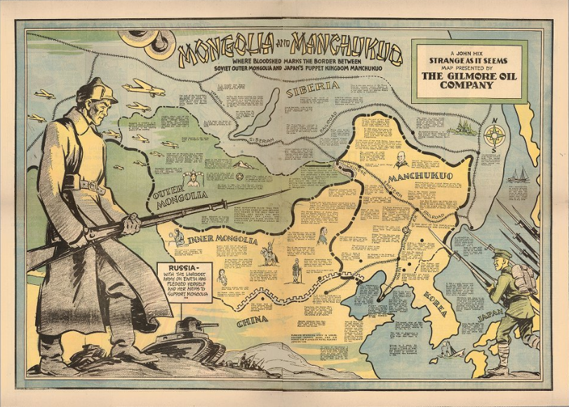 MONGOLIA and MANCHUKUOМонгол: Монгол ба Манж-го